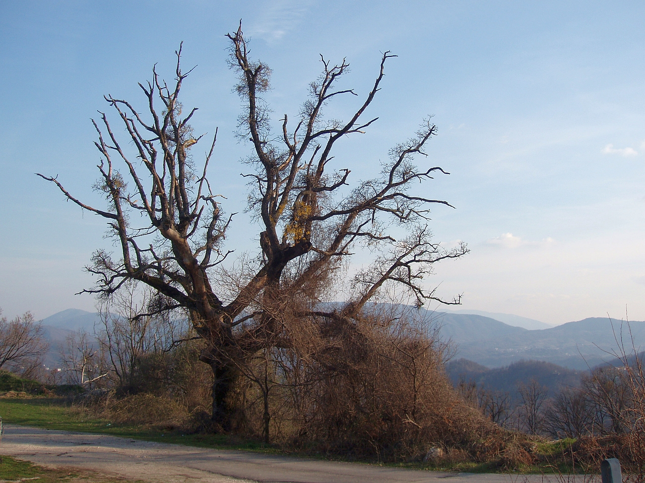 The so-called "tree of the hanged ones" in Brusciano, village in the municipalty of Fiamignano (province of Rieti, Lazio), Italy